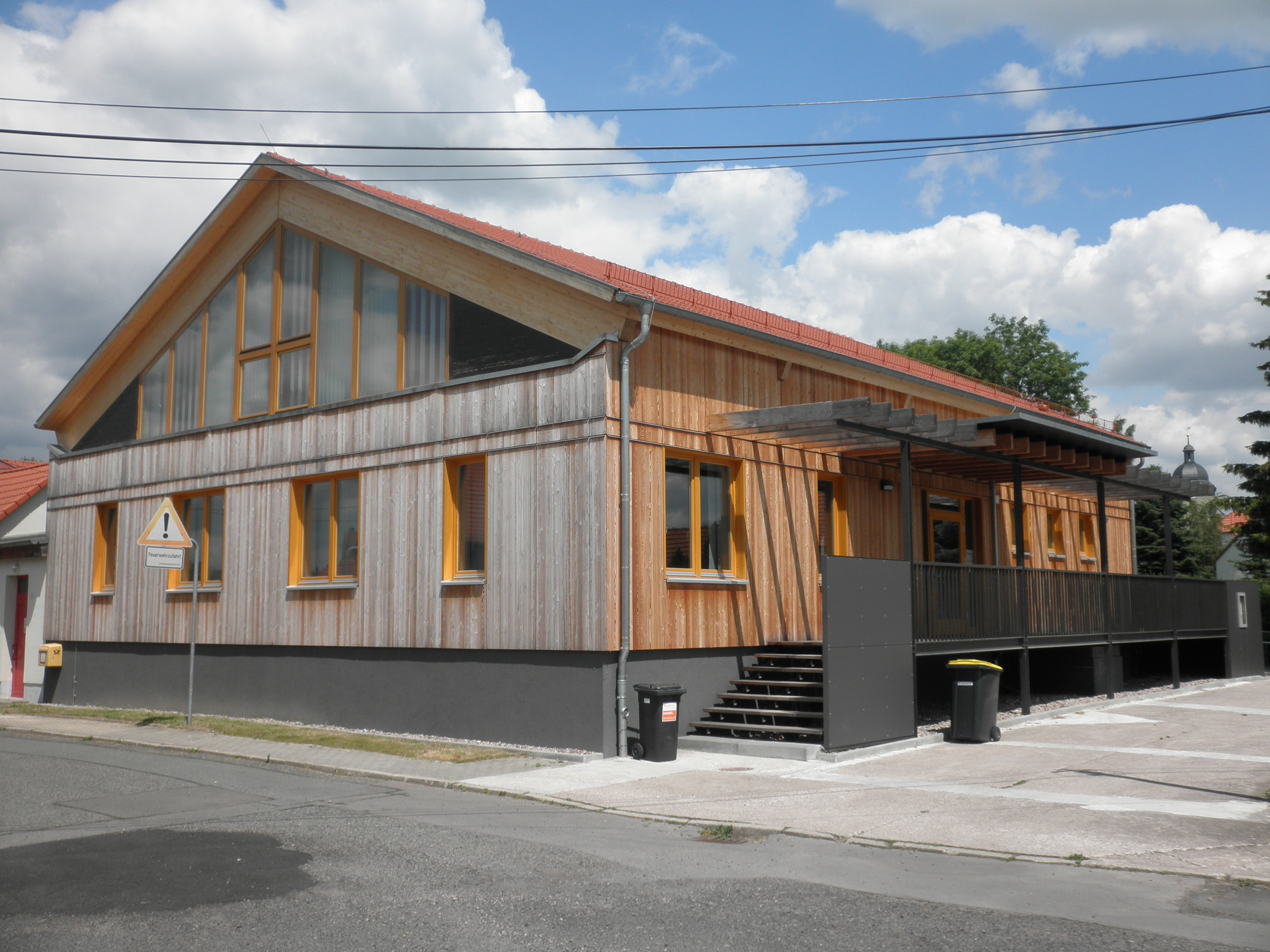 Parish Hall in Ermstedt